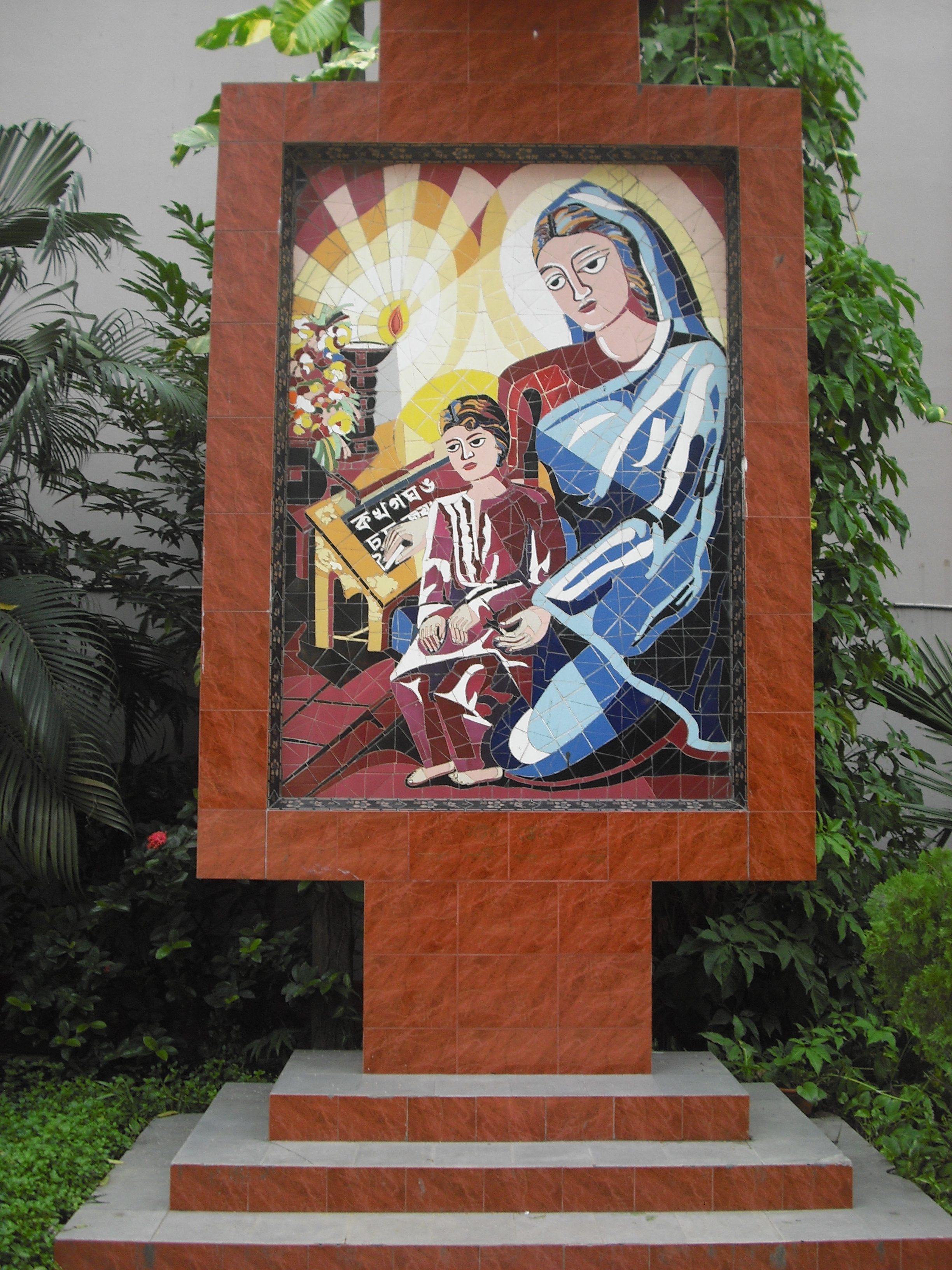 This mosaiced image of Mary is seen at the entrance.